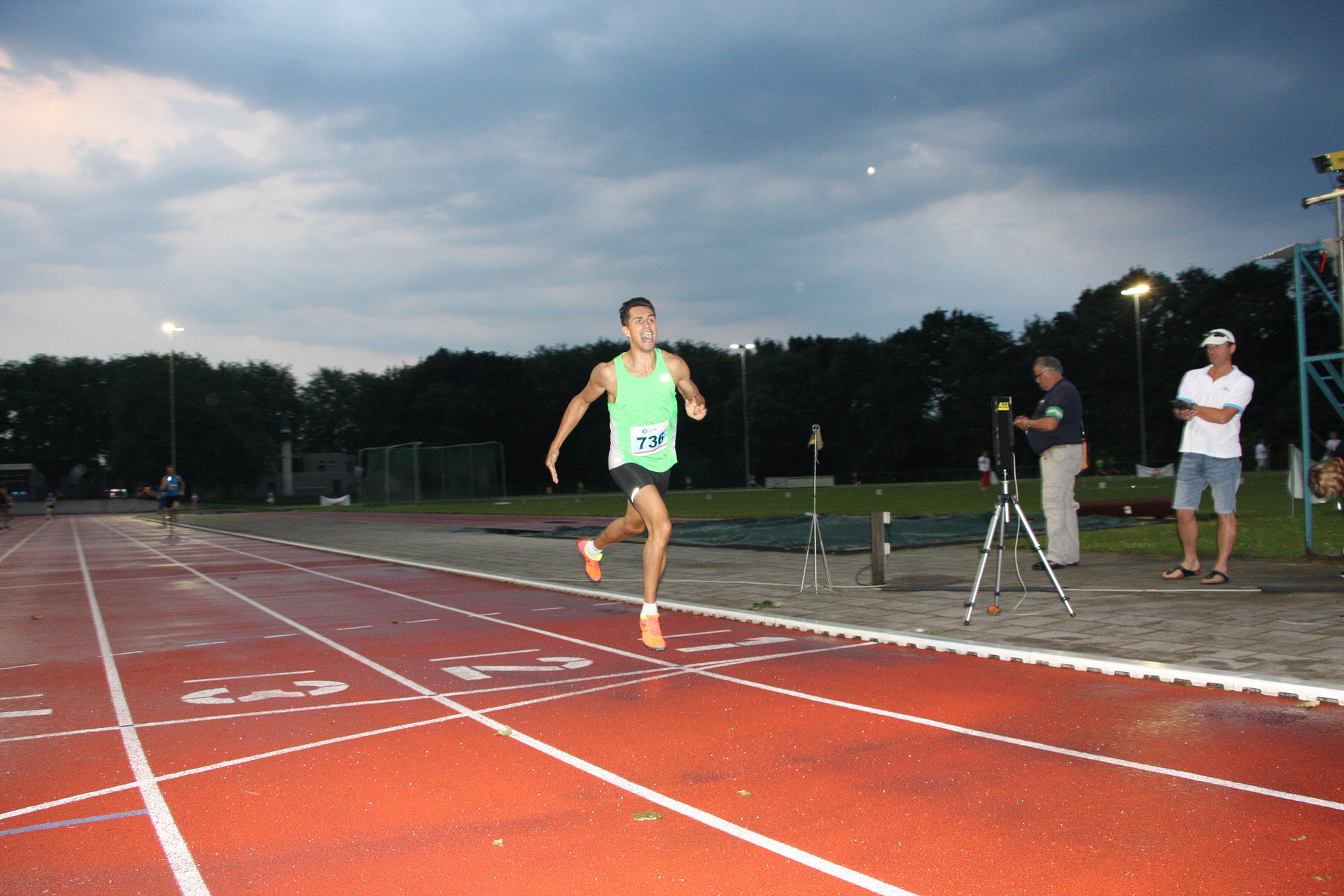 Owen Westerhout finishing a 800 meter at the DSM Baancircuit race in Dronten, The Netherlands.